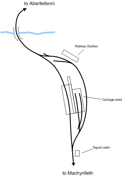 Plan of Corris Railway Station. Author: Gwernol Kernowek: Desin Gorsav Hyns-horn Corris. Awtour: Gwernol